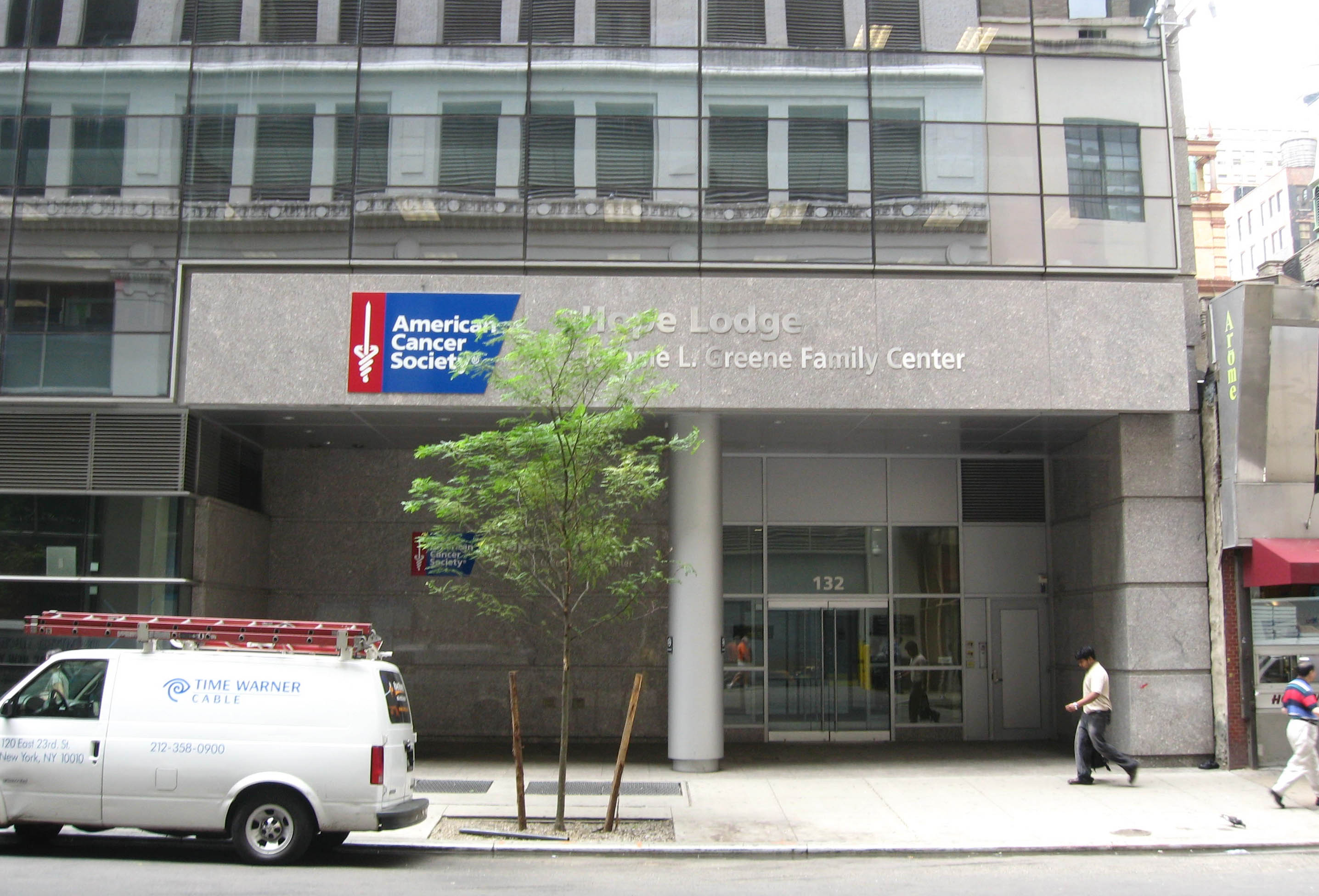 Looking south at the Hope Lodge at 132 West 32nd Street Manhattan, base of The Epic. American Cancer Society Hope Lodges.